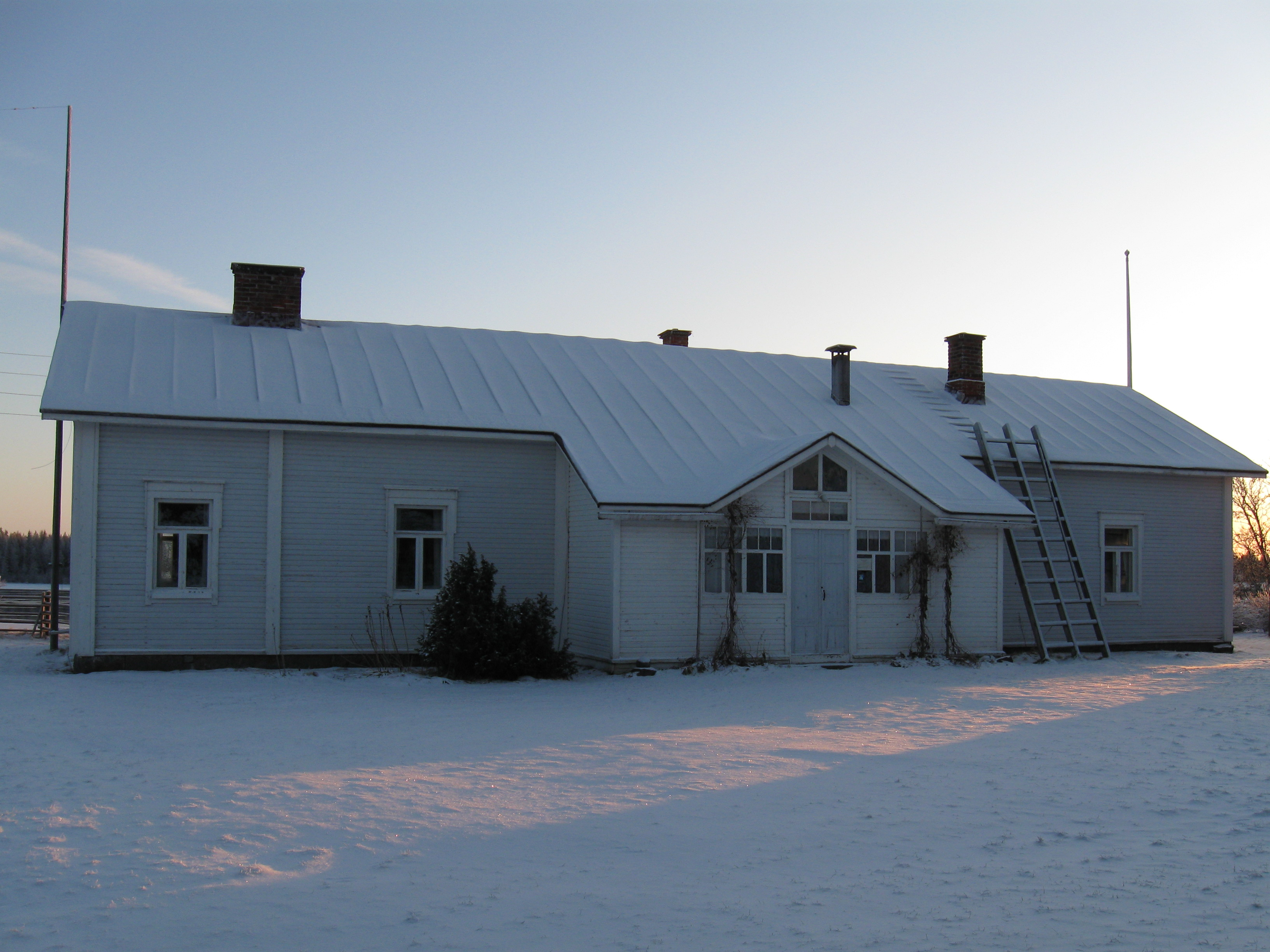 The main building of the old Lamminaho estate at Oulujoki river in Vaala, Finland.